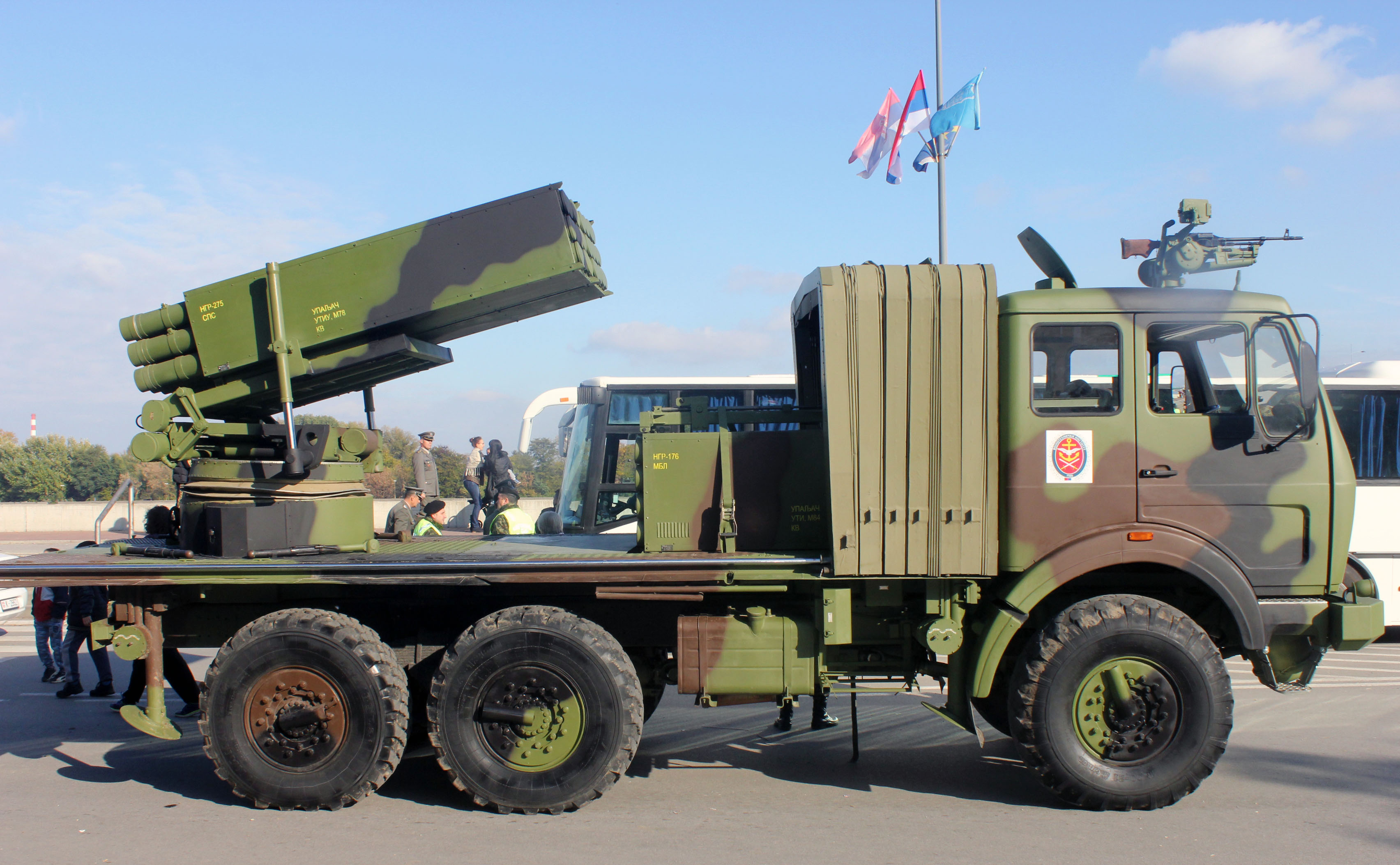 Modernized modular M-77 Oganj MLRS on display at Novi Sad after WW2 liberation parade.